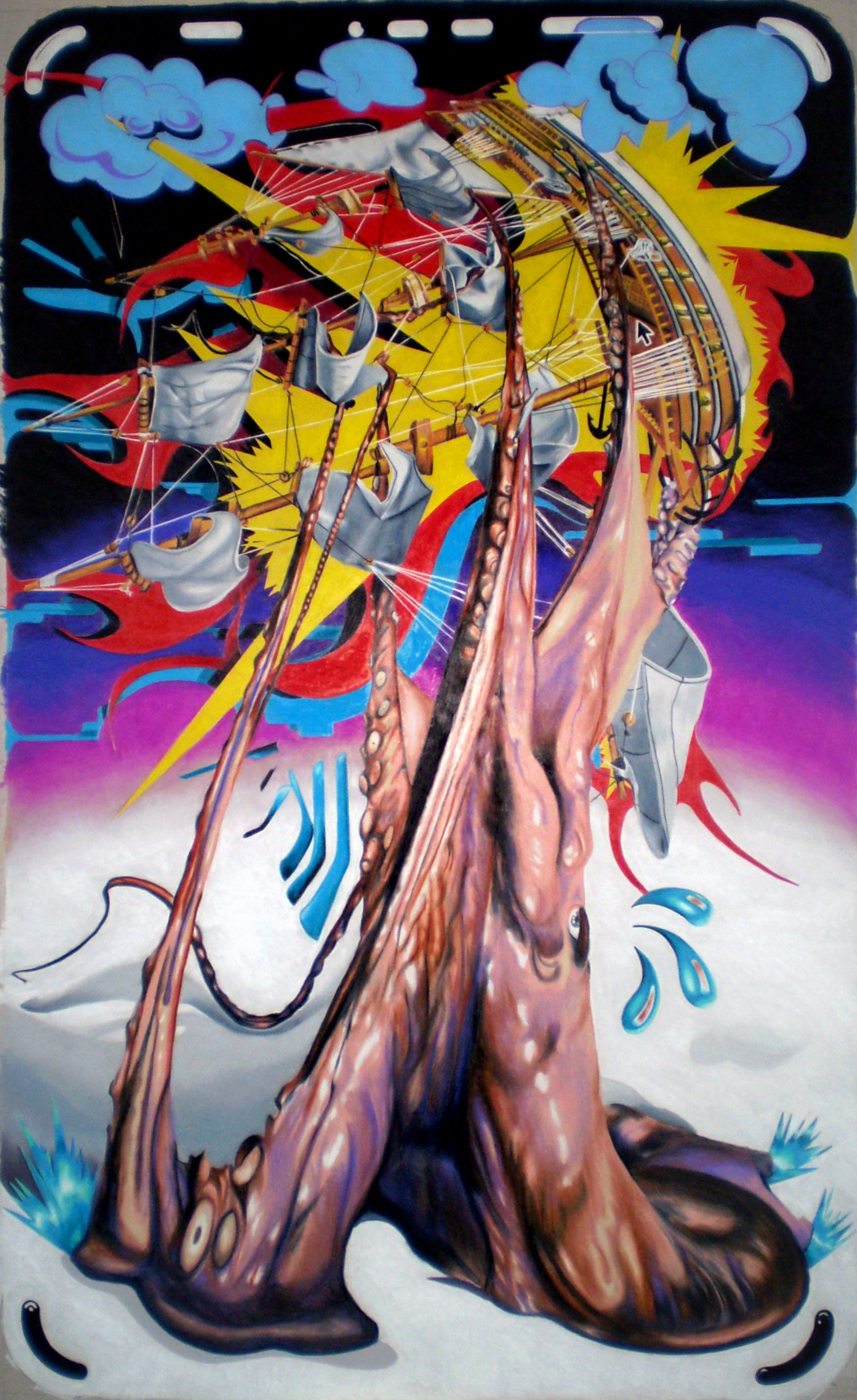 This is a contemporary depiction of The Kraken, a mythological sea creature said to have dwelt off of the norse coast.